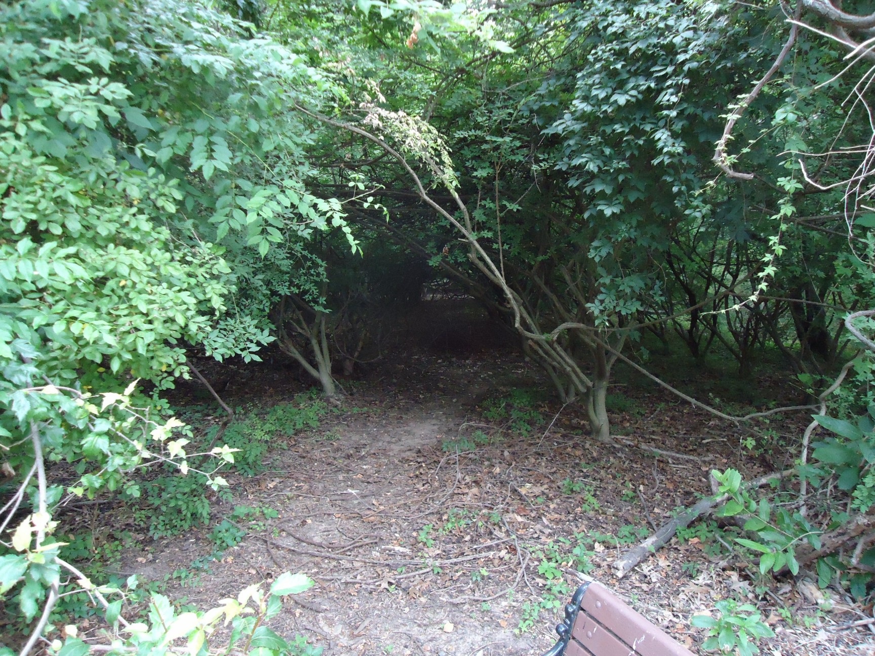 Scene at a park near the Trailside Nature & Science Center in Watchung, New Jersey